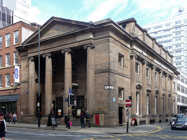 Greek Revival facade with Ionic portico in antis facing Mosley Street, and attached Ionic columns, (Runcorn stone) pedimented windows and parapet on the Charlotte Street facade.